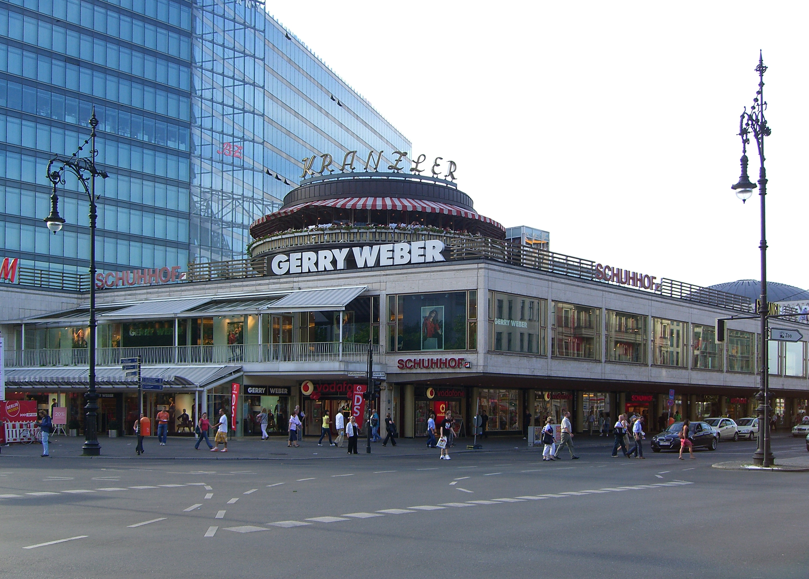 Café Kranzler in the rotunda on the top of the building in Berlin at Kurfürstendamm.